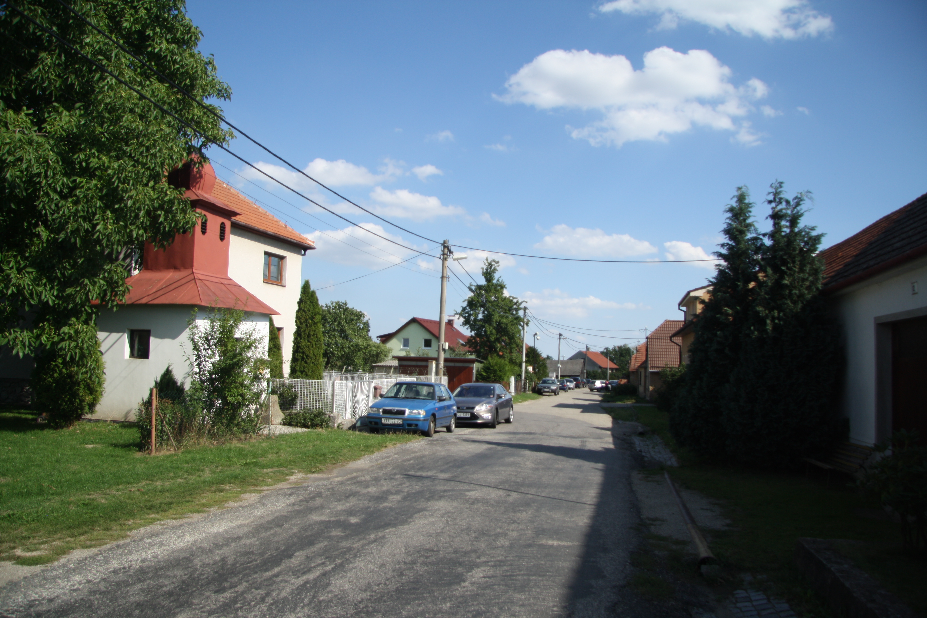 East part and chapel in Jáchymov, Velká Bíteš, Žďár nad Sázavou District.